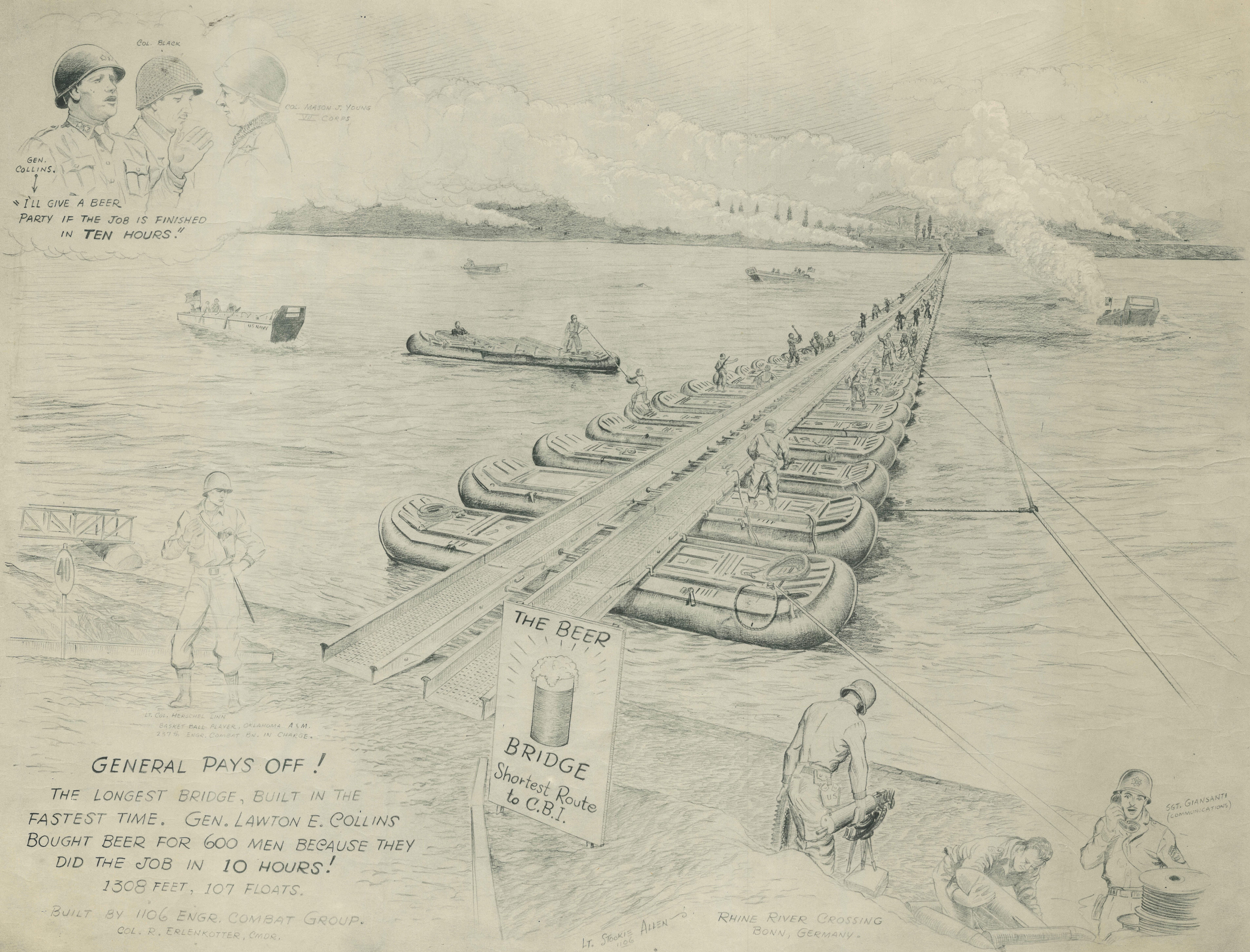 Scope and content: This item is Lt. Stookie Allen's drawing of the Rhine River Crossing by the 1106 Engineer Combat Group near Bonn, Germany during World War II.